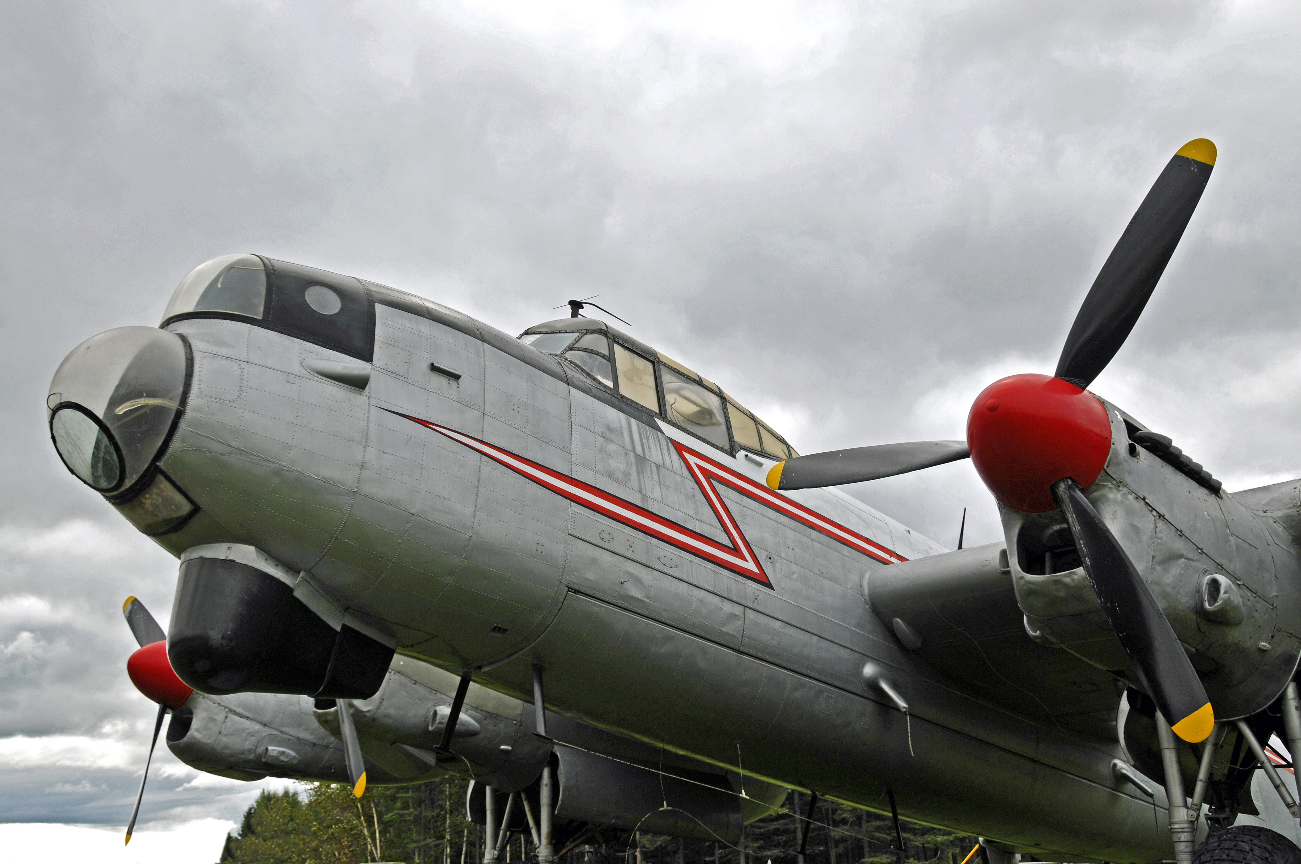 Avro Lancaster KB882, at Edmundston Airport.